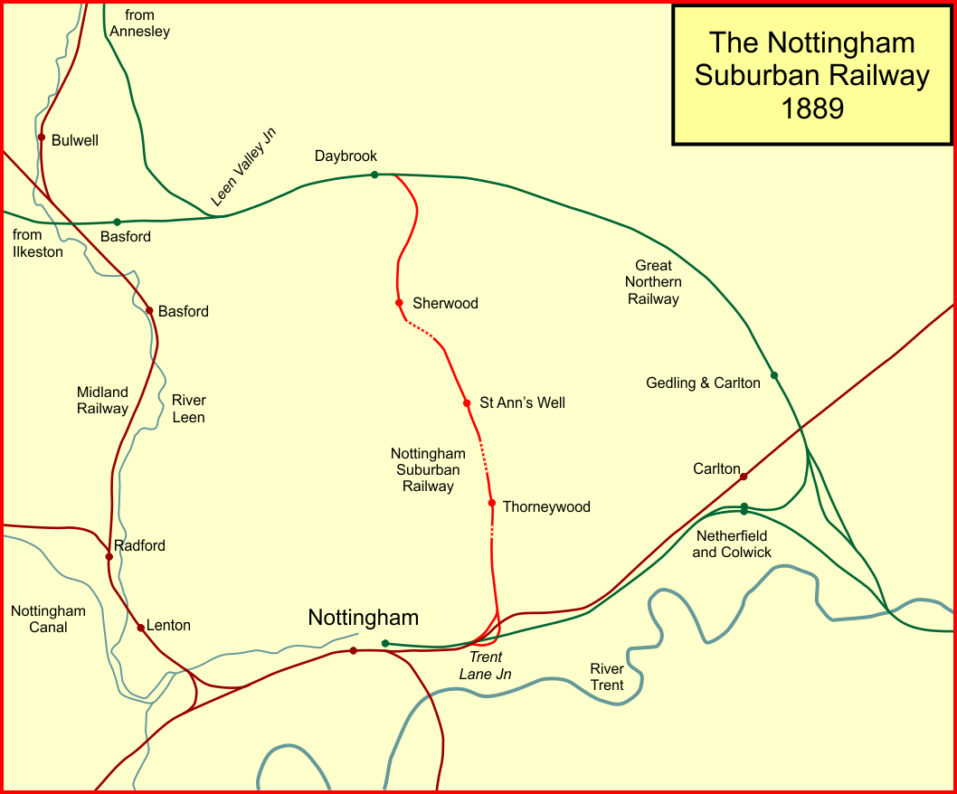 System map of the Nottingham Suburban Railway, England, in 1889